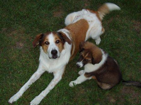 These contemporary farm collies are second cousins. Note the variation in color and build. The dog on the right is a two month old puppy. Photo taken by David Huff in September 2006.